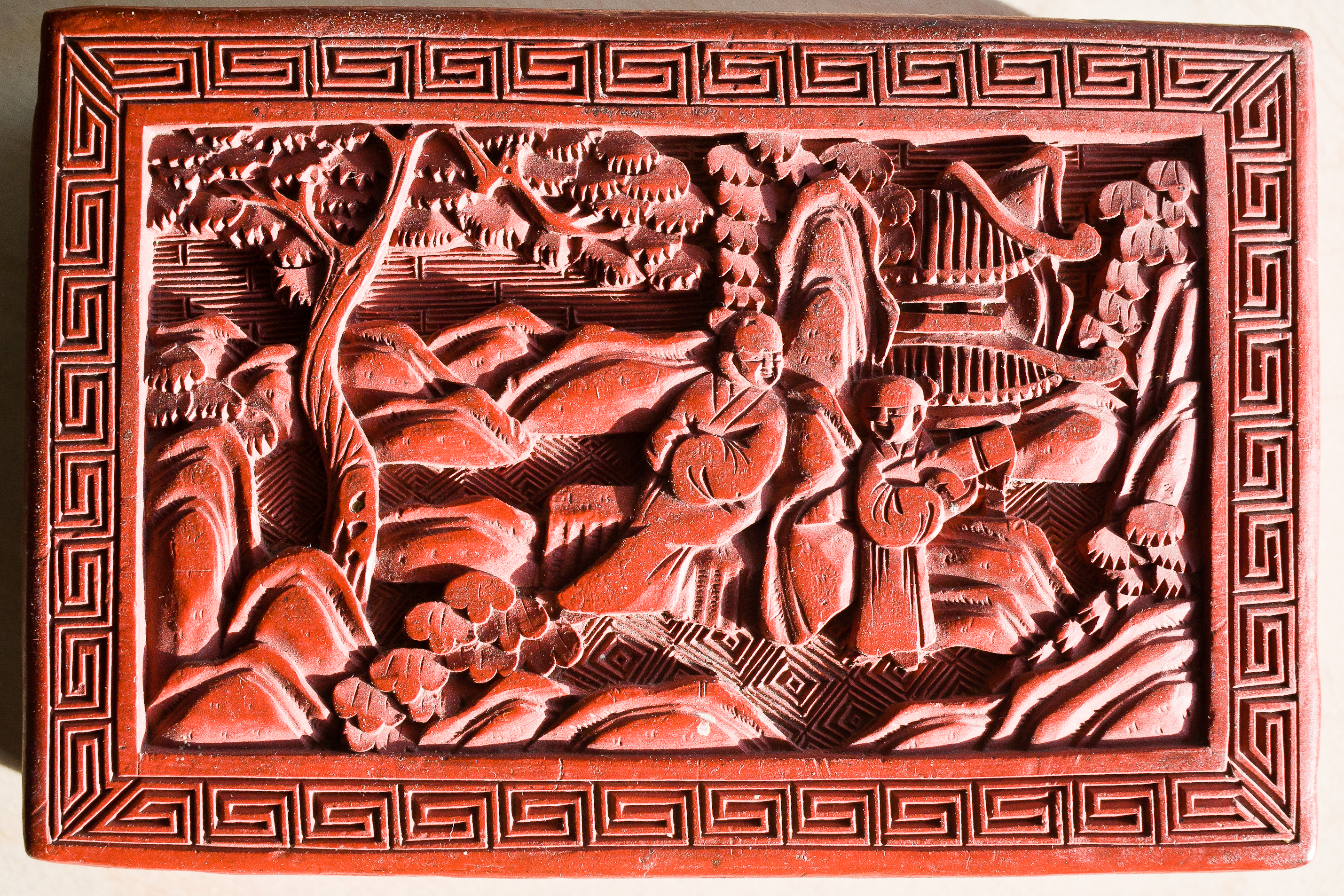 Chines red laquor box